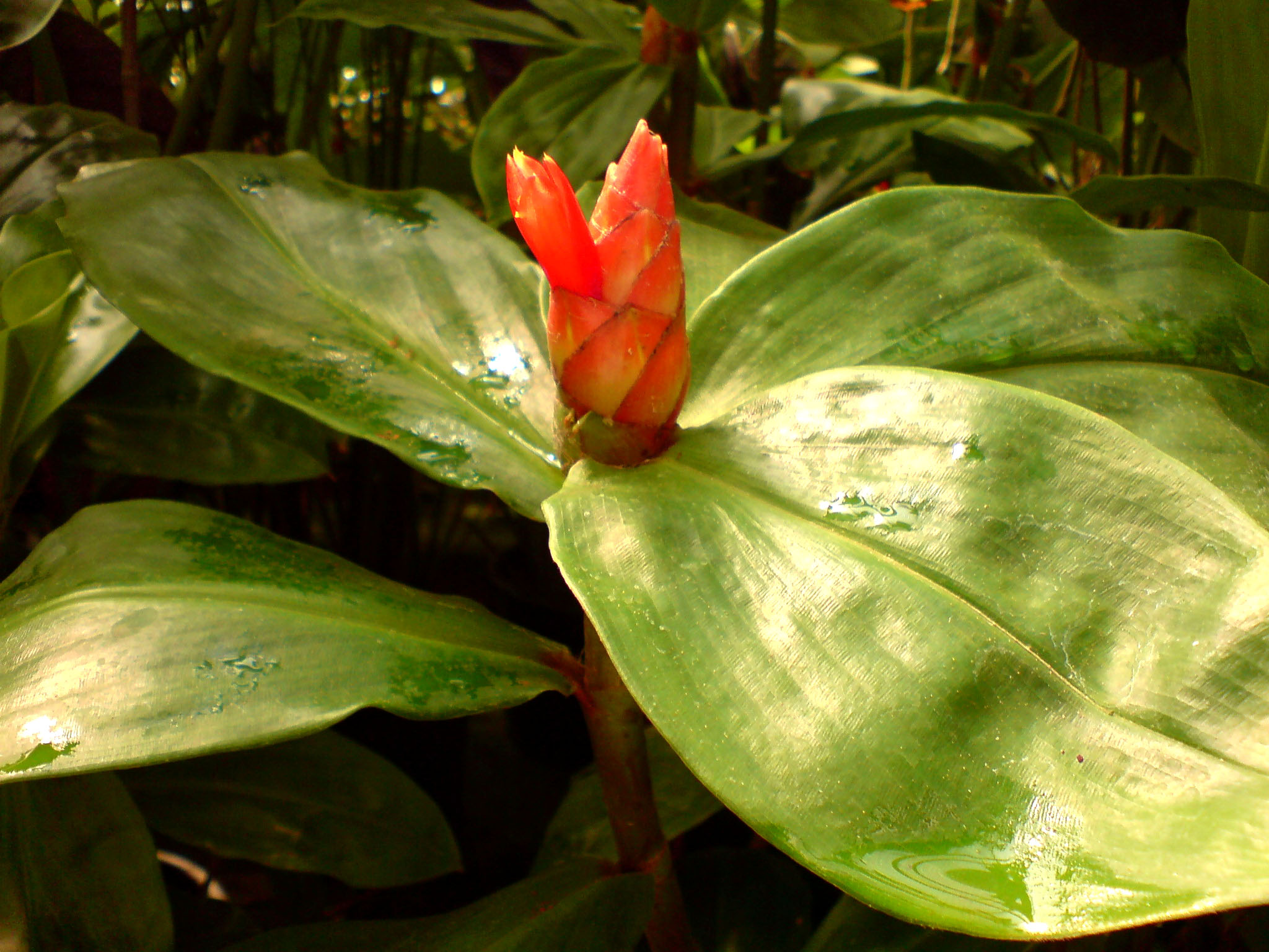 Costus scaber - Botanical Garden Göttingen